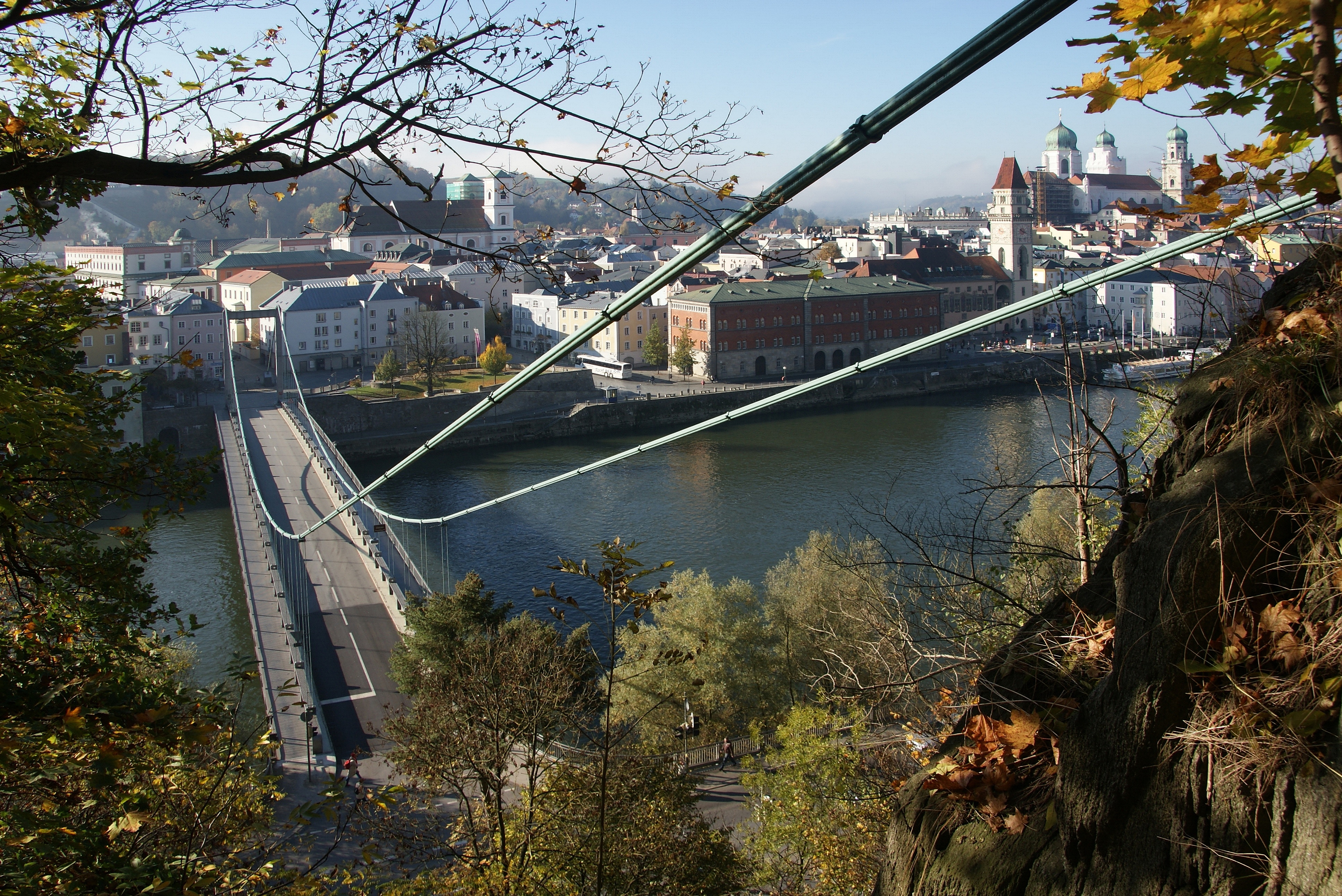 The Old Town of Passau at the Danube